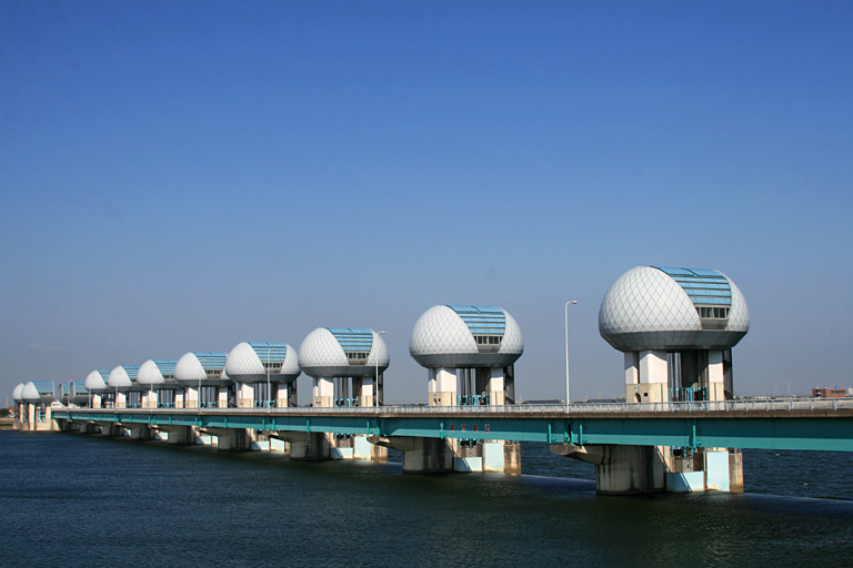 Nagara River Estuary Barrage